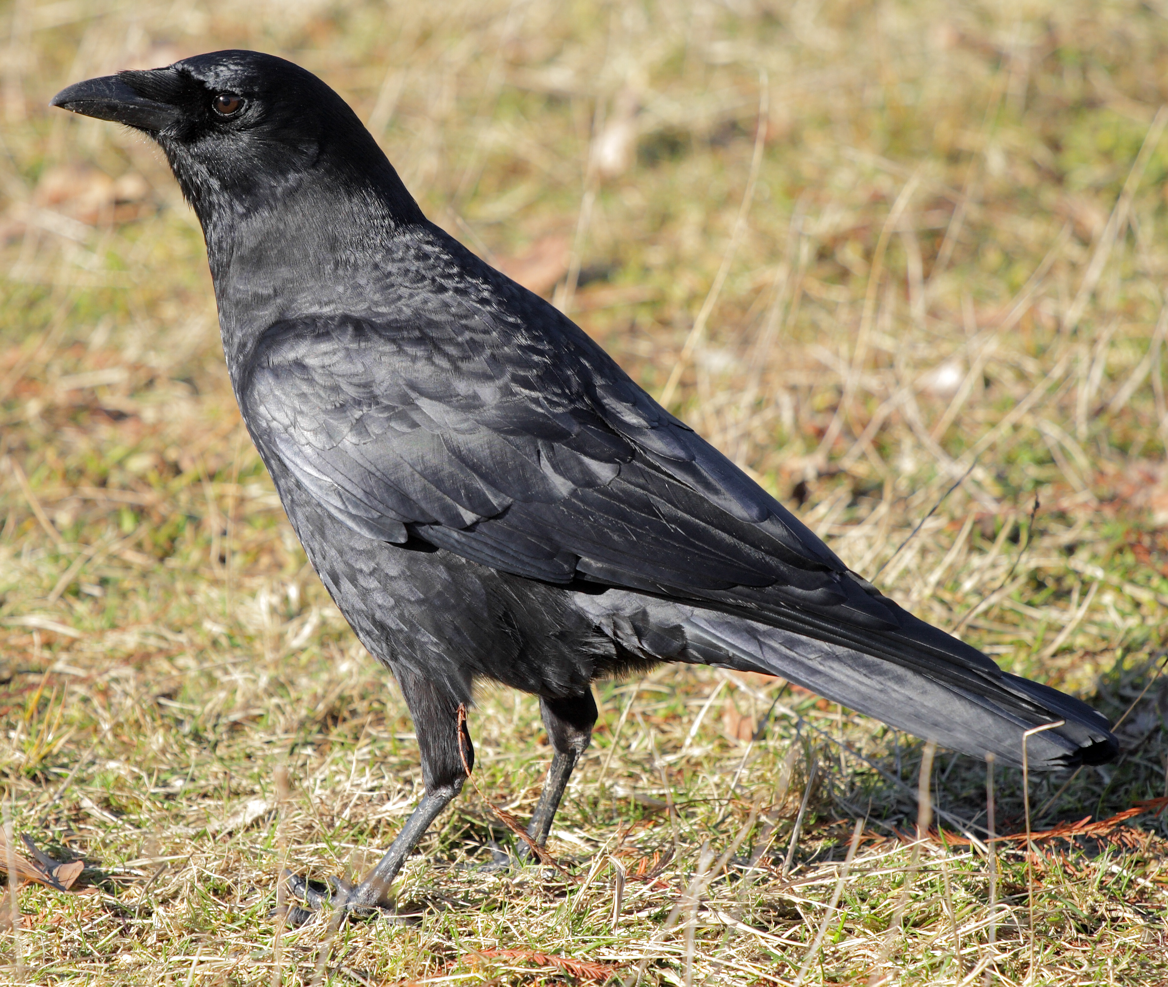 A Northwestern Crow(Corvus caurinus), standing on grass in Vancouver, BC.